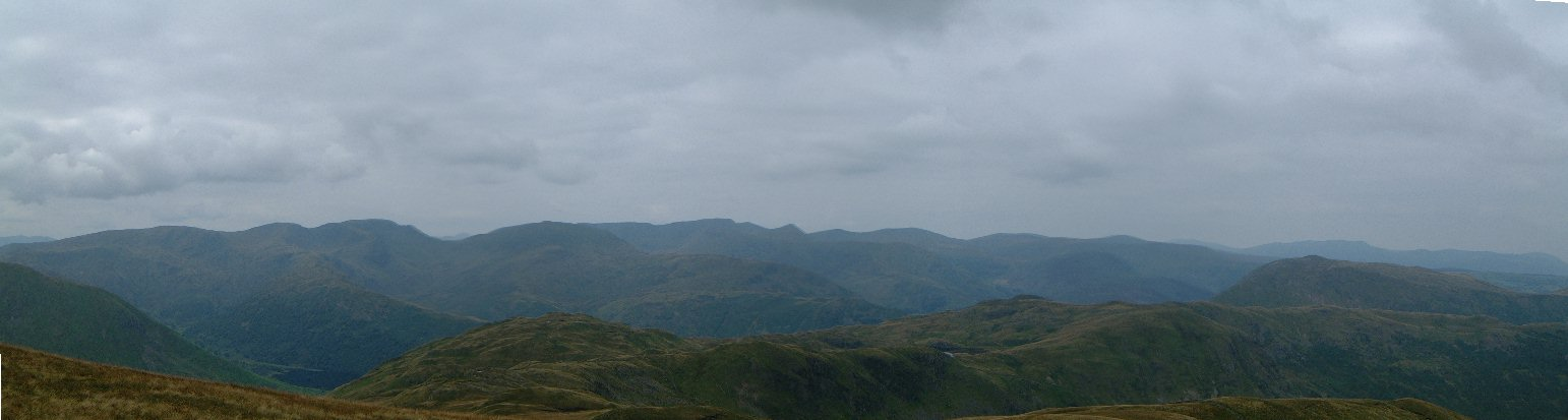 Personal photograph taken on 17th September 2002 by Mick Knapton